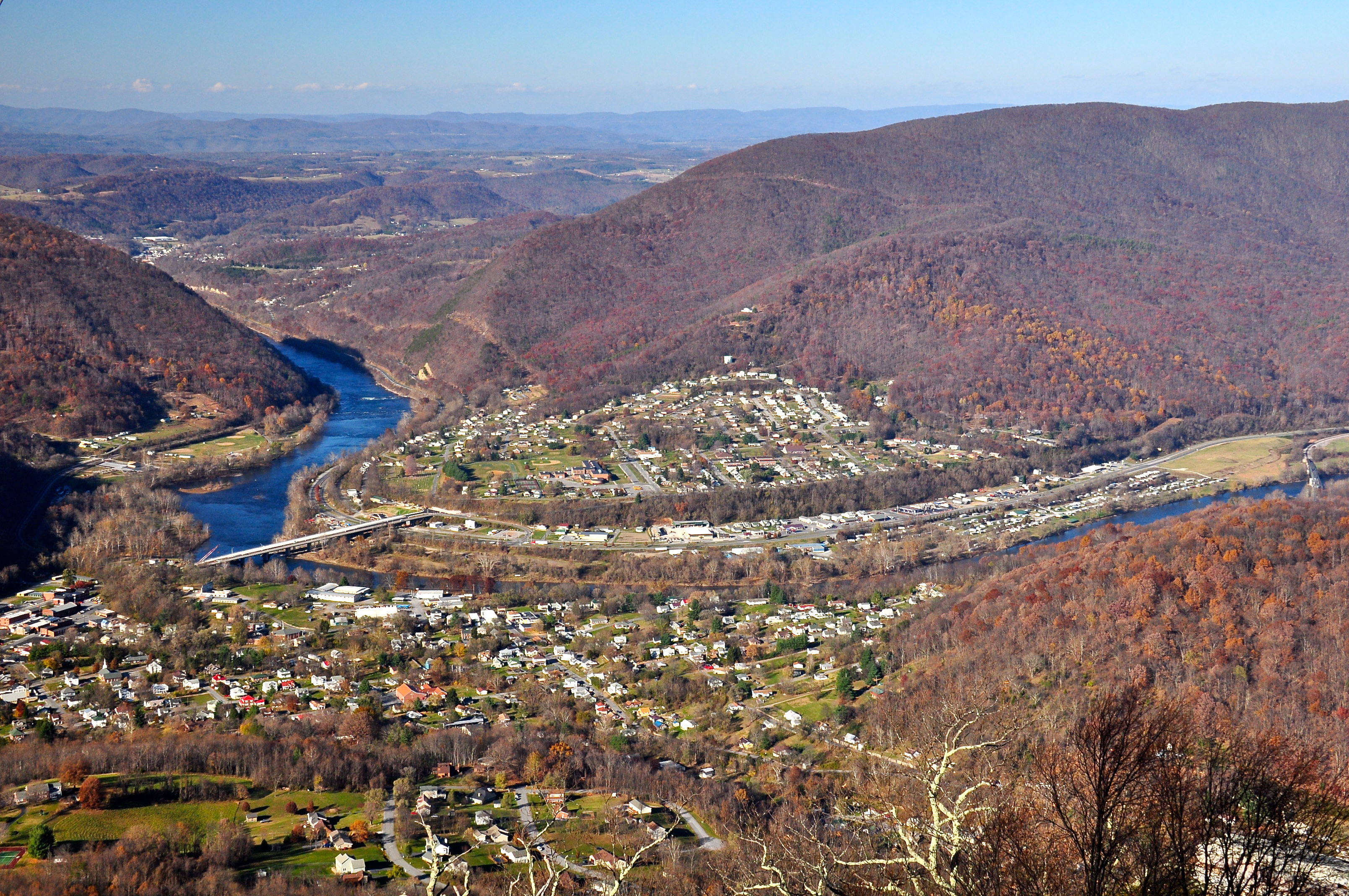 Narrows, Virginia photographed from Sentinel Point.